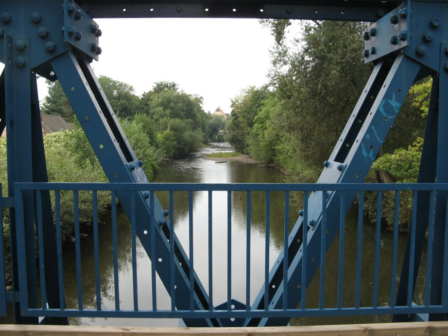 Bruche river from the footbridge Mistler, Molsheim, France.